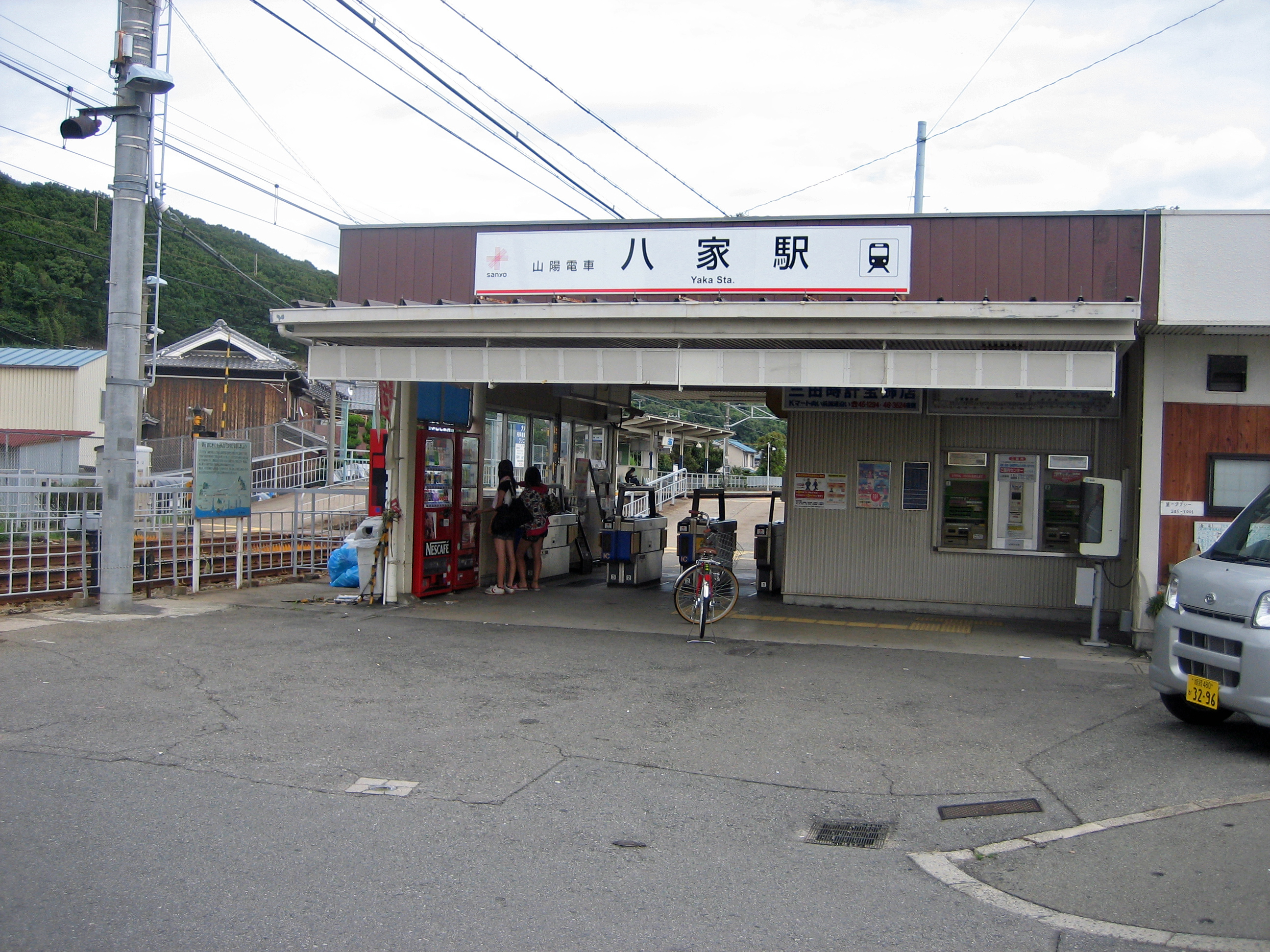 Yaka Station